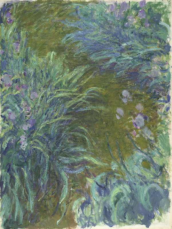 C. Monet, Irises, 1914-17, London, National Gallery